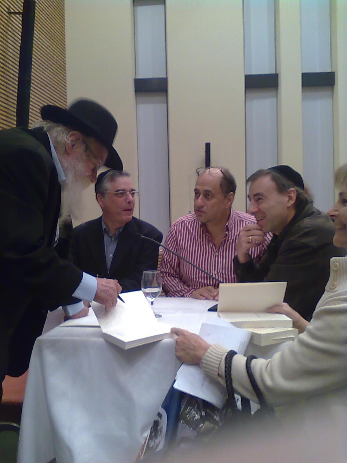 Michael Kühntopf in talk with Adin Steinsaltz